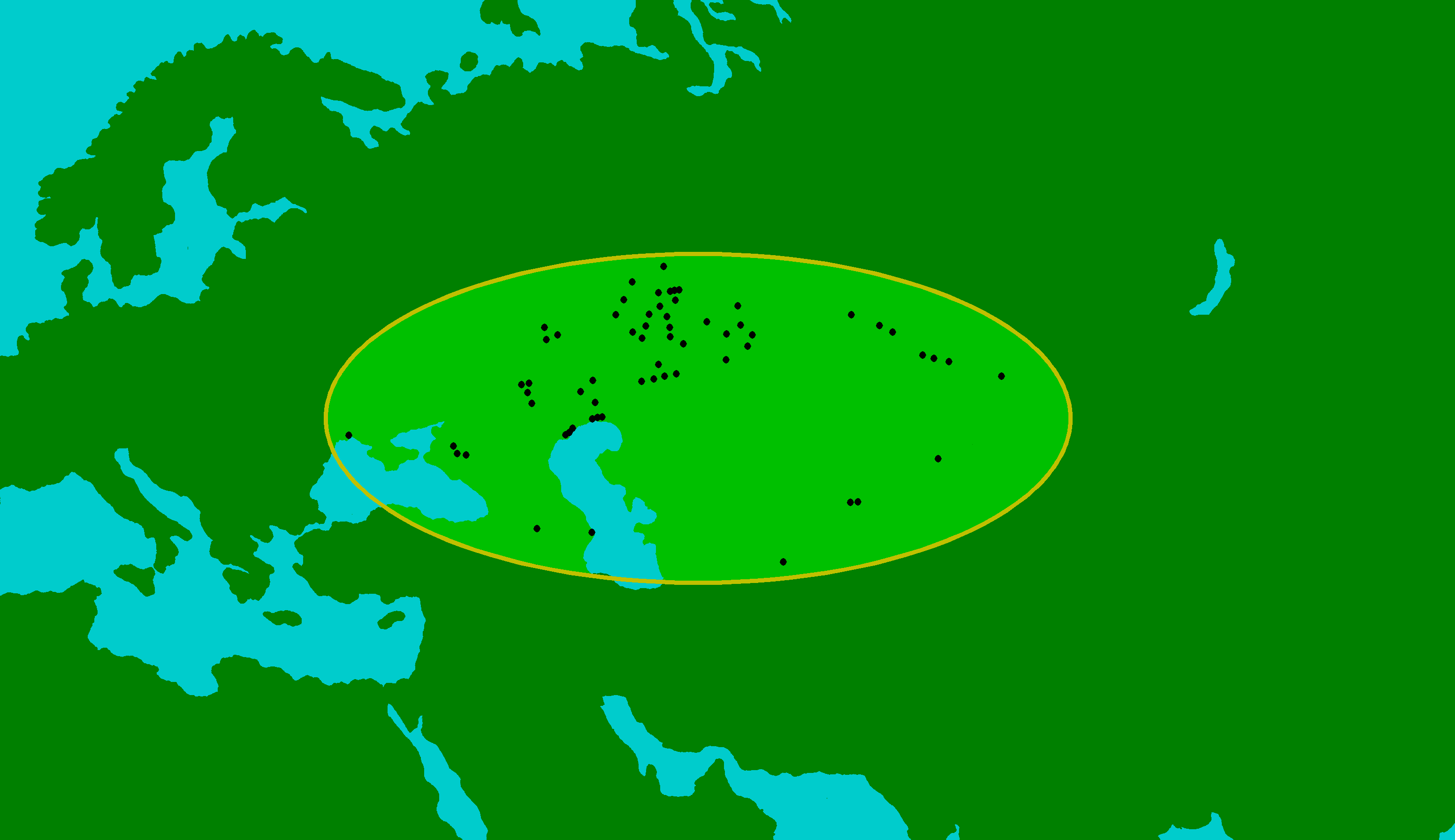 Distribution of E. sibiricum during the Middle and Upper Pleistocene.